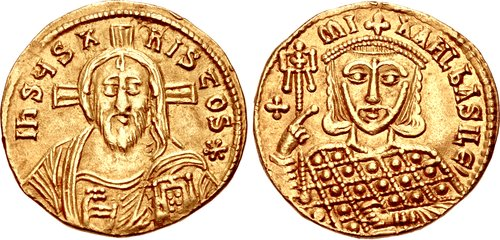 Michael III "the Drunkard". 842-867. AV Solidus (21mm, 4.41 g, 6h). Constantinople mint. IҺSЧS X RISτOS *, facing bust of Christ Pantokrator; cross behind / + mI XAHL ЬASILЄ’, crowned facing bust of Michael, wearing slight beard and loros, and holding labarum.